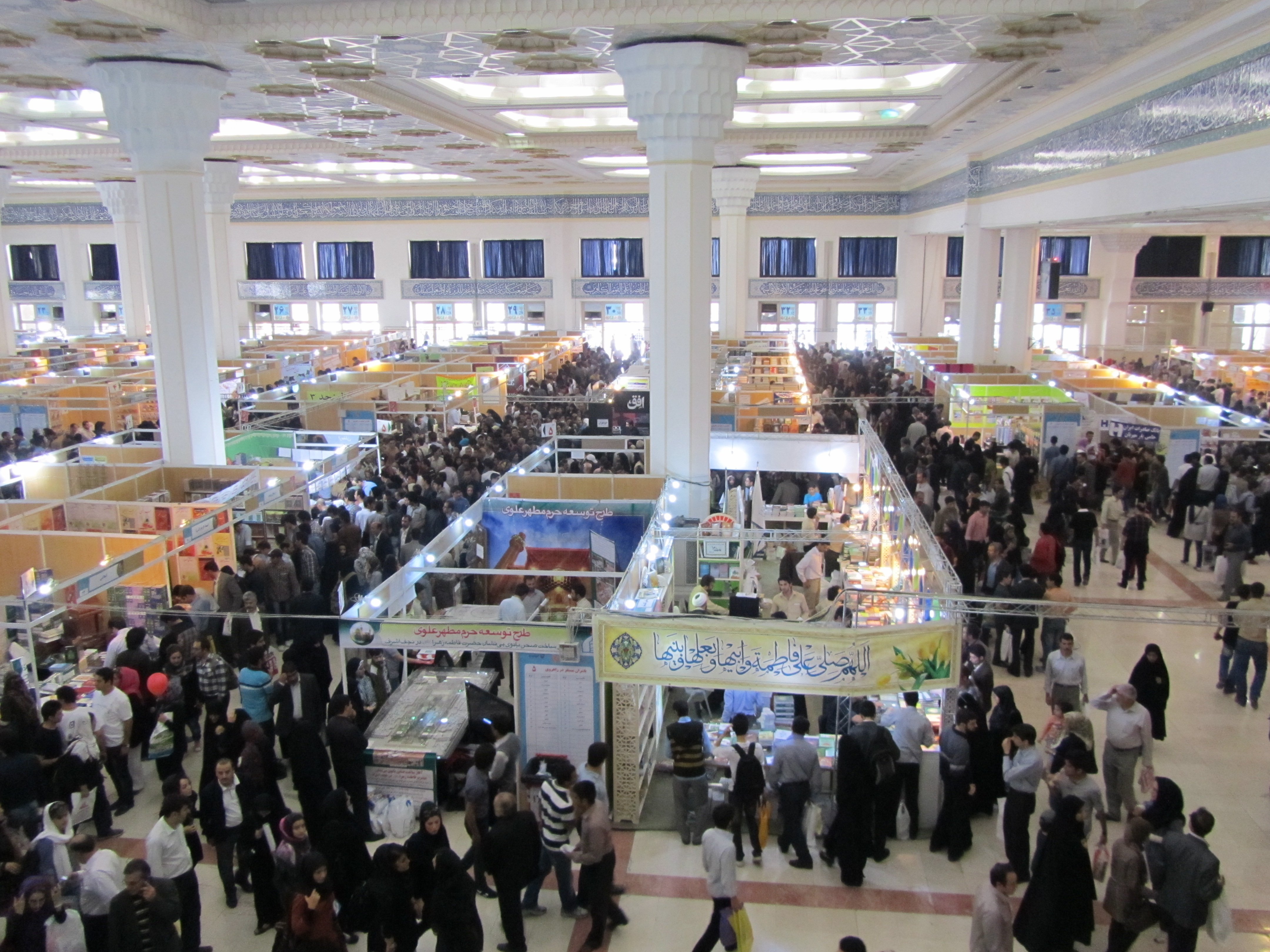 Tehran International Book Fair (TIBF)